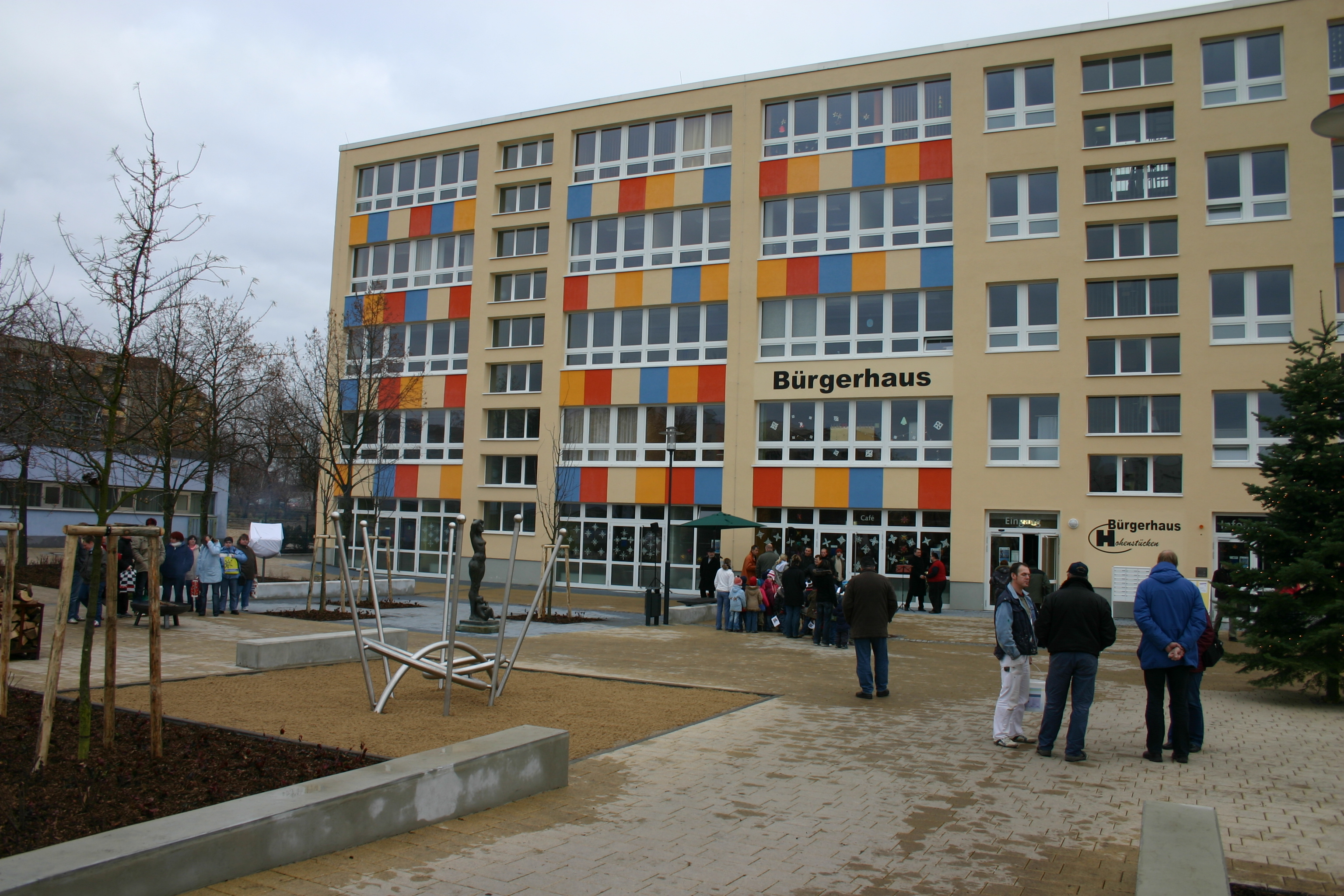 The citizen's building in Hohenstücken